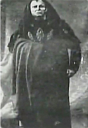 Sharifzade as Iblis (Devil). Play "Devil" by Huseyn Javid